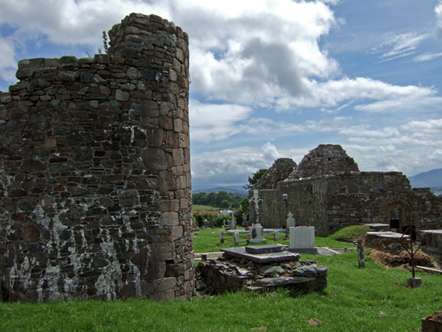 Aghadoe Round Tower and Church Situated about 2 - 3 miles west of Killarney, Aghadoe Hill is off the tourist track, yet the views around are quite outstanding. Lower down are the ruins of a round tower, a C12 church, and even a Norman castle.